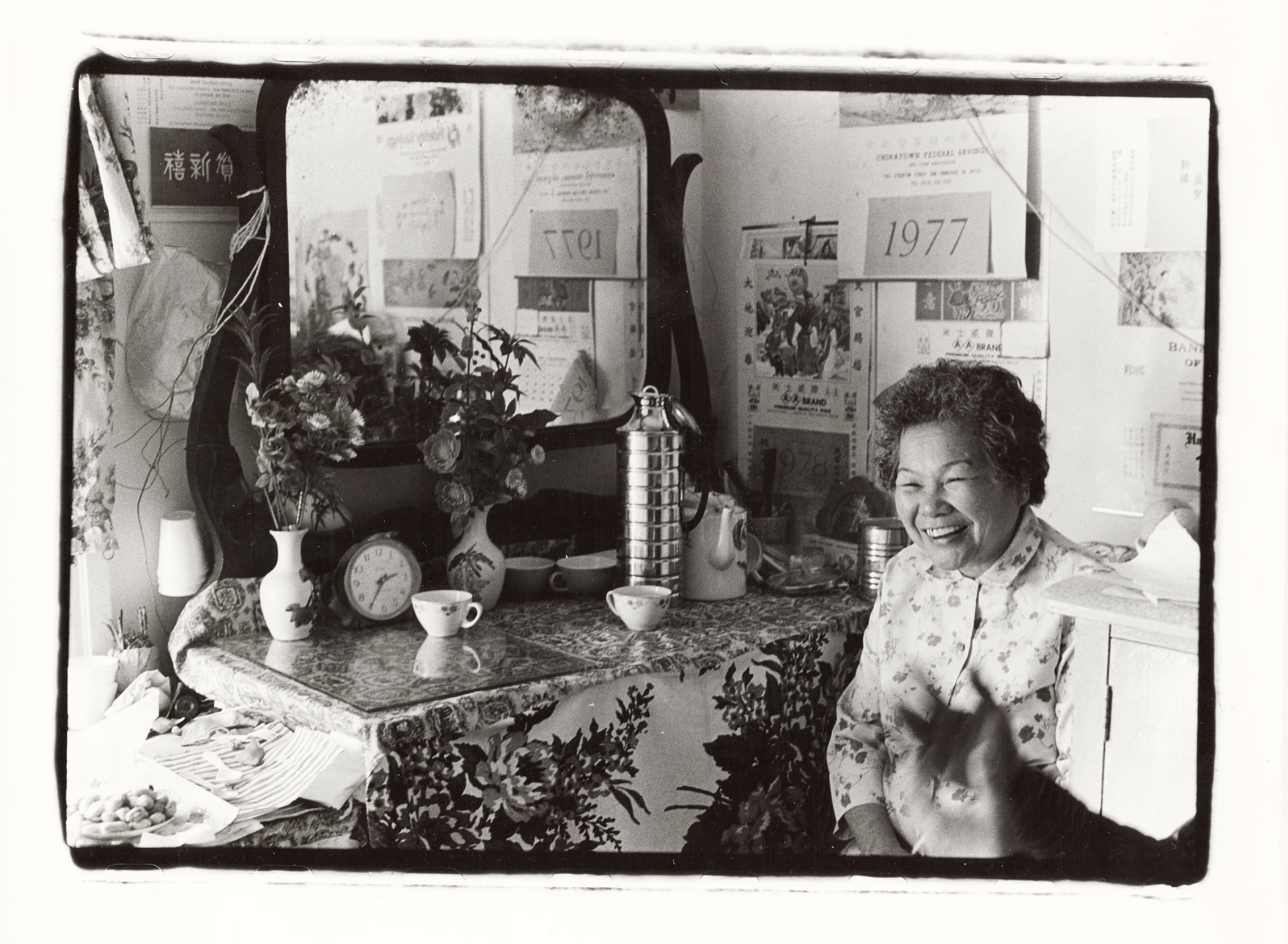 SF Chinatown resident serving tea, 1977